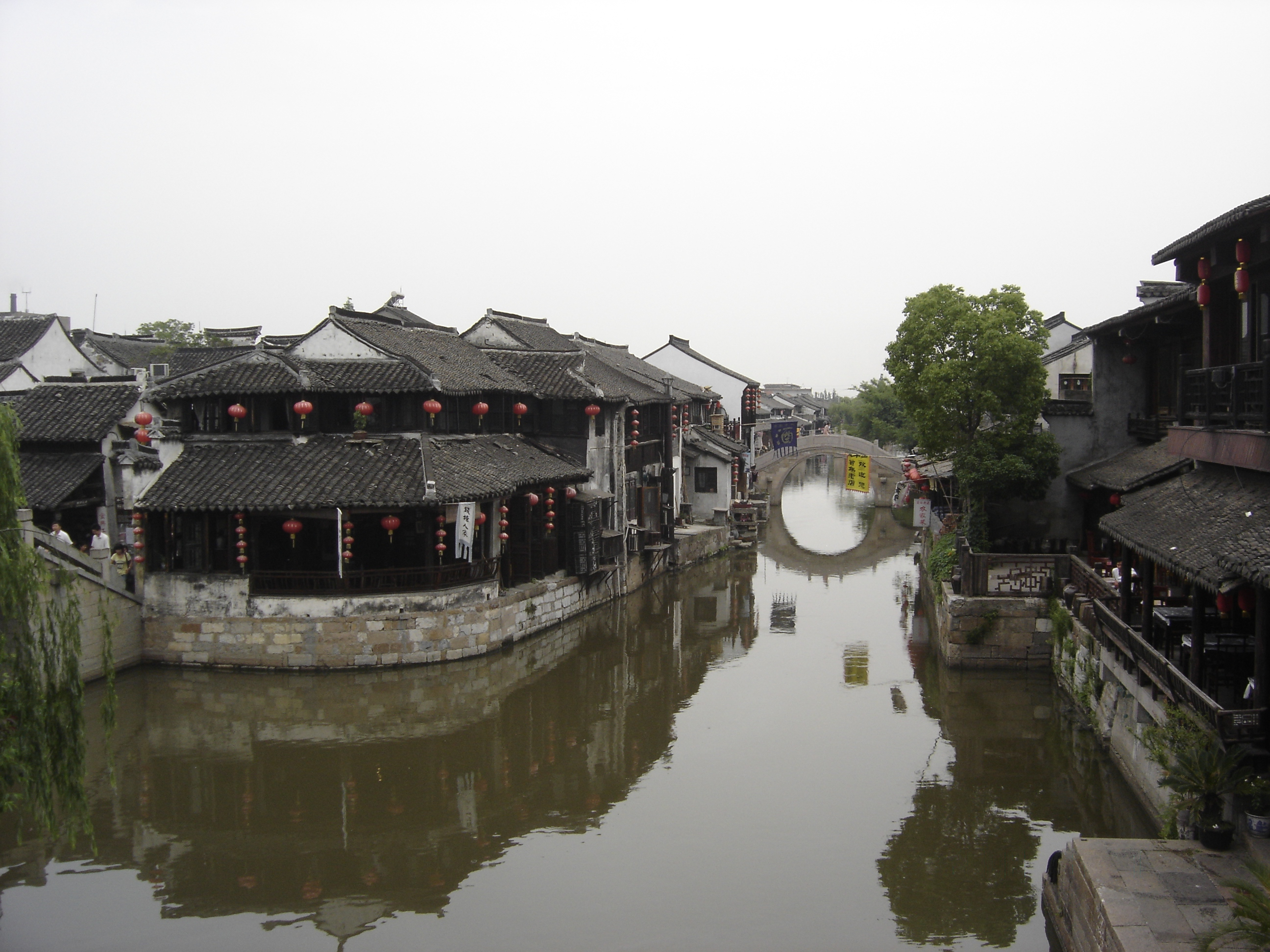 A photo of Xitang